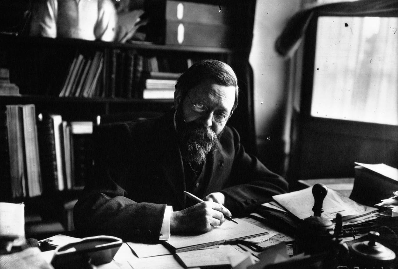 Pierre de Nolhac, conservator of the Museum of Versailles, at his desk in 1911. From the collection of the National Library of France.Unknown